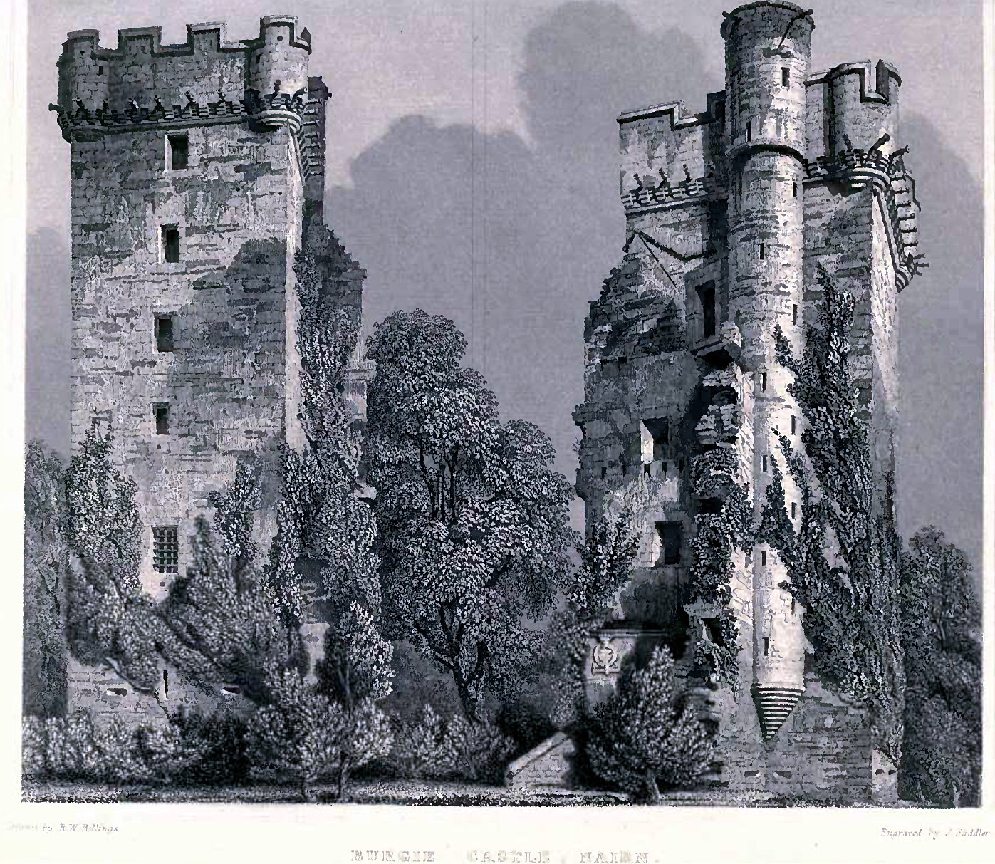 Burgie Castle, Scotland.